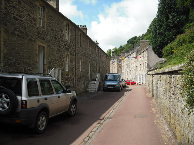 Caithness Row Lane at the rear of Caithness Row. Original inhabitants were Highland emigrants who were persuaded by David Dale to come to New Lanark rather than risk a journey across the Atlantic.